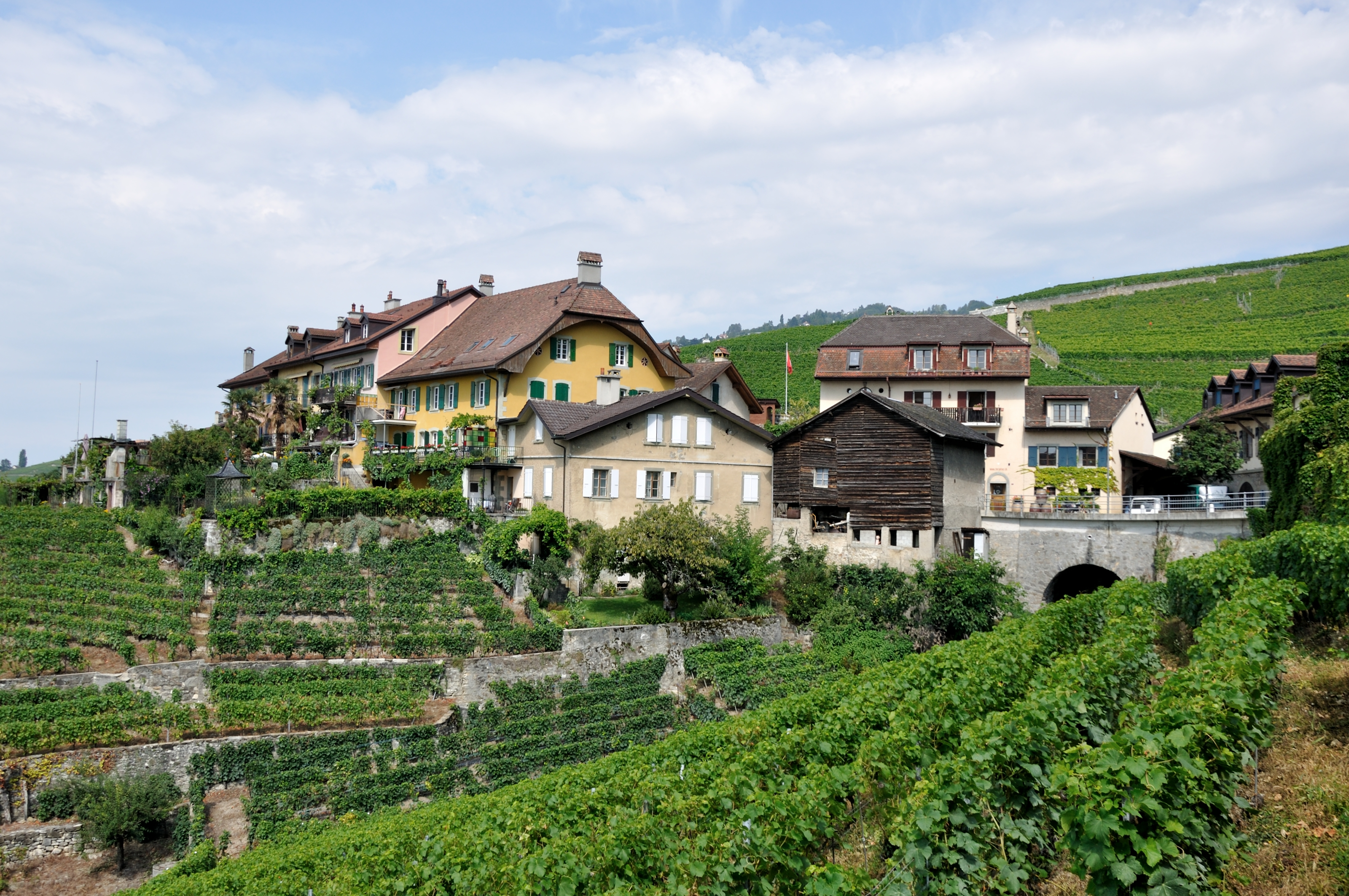 Switzerland, Vaud, hike along Lake Geneva from St. Saphorin to Lutry